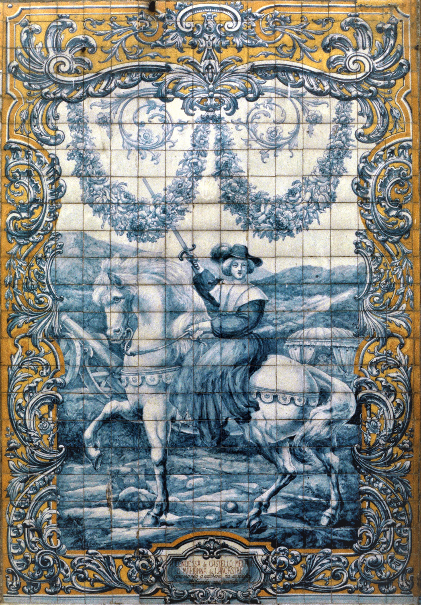 "The Countess of Castelo Melhor, Mariana de Lencastre, commands the artillery in the absence of her husband the Count", 19th-century azulejo panel by Pereira Cão in Palácio da Rosa, Largo da Rosa, Lisbon. It depicts an episode of the Portuguese Restoration War in the 17th century. Аҧсшәа: "A Condessa de Castello Melhor D. Marianna de Lancastre commanda a artilheria na ausencia do Conde, seu marido". Painel de azulejo do século XIX, da autoria da Pereira Cão, no Palácio da Rosa, Largo da Rosa, Lisboa. Representa um episódio da Guerra da Restauração do século XVII.